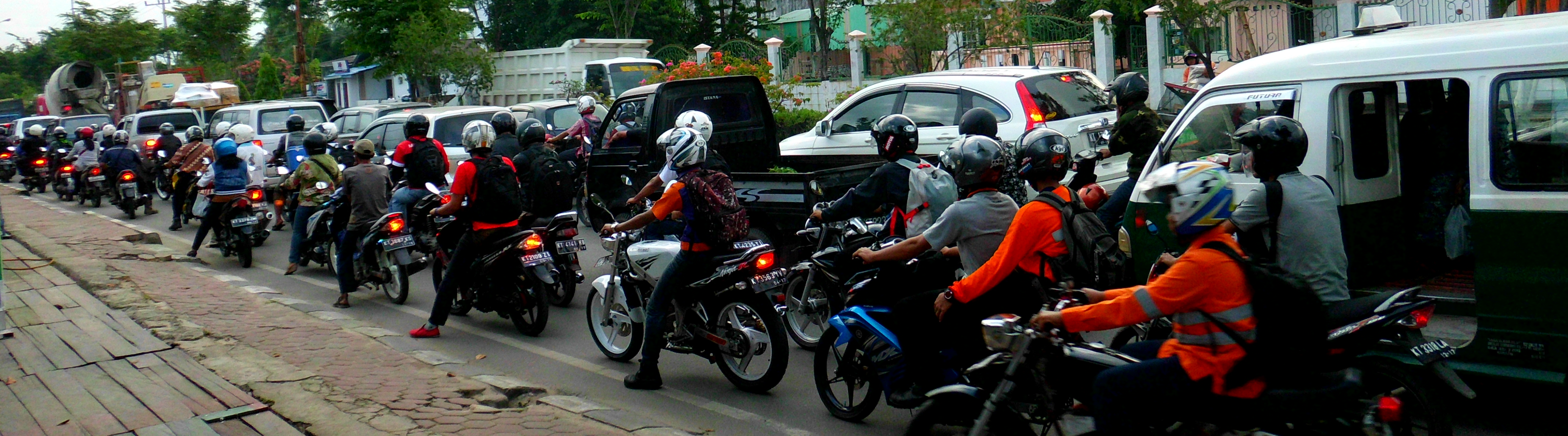 Traffic congestion in Mulawarman street Balikpapan.